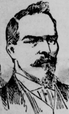 George Crawford Platt (1842–1912), a native of Londonderry, Ireland was awarded the U.S. Medal of Honor for his gallantry during the American Civil War while fighting as a private with the 6th U.S. Cavalry at Fairfield, Pennsylvania on day three of the Battle of Gettysburg (July 3, 1863). His award citation states that he "Seized the regimental flag upon the death of the standard bearer in a hand-to-hand fight and prevented it from falling into the hands of the enemy." He resided in Philadelphia following the war.